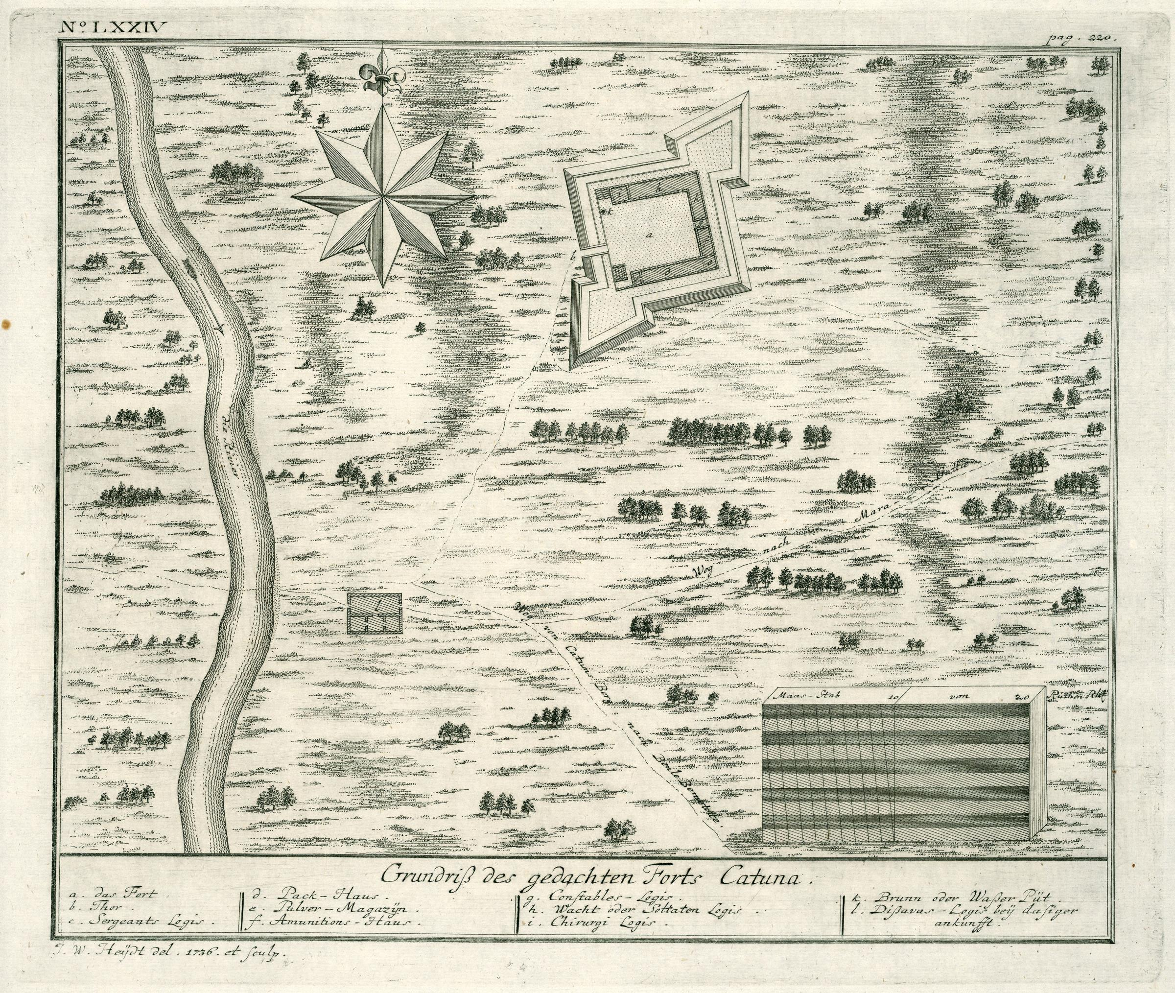 View of the Catuna fort. Grundriß des gedachten Forts Catuna. Key: a. das Fort. / b. Thor. / c. Sergeants Logis. / d. Pack-Haus. / e. Pulver-Magazijn. / f. Amunitions-Haus. / g. Constables-Logis. / h. Wacht oder Soltaten Logis. / i. Chirurgi Logis. / k. Brunn oder Waßer Püt. / l. Dißavas-Logis beij dasiger ankunfft..